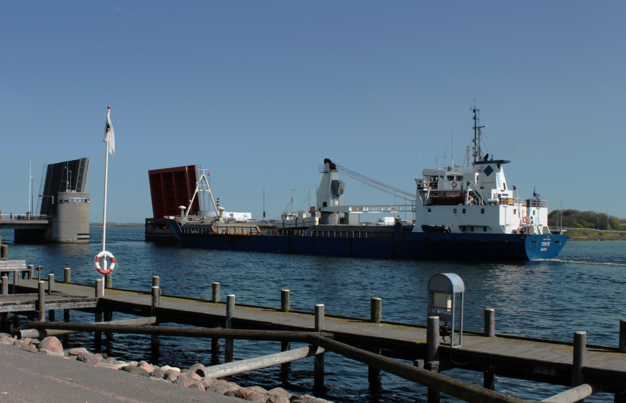 A New-Zealand-ship, the "Tinto", is passing the Hadsundbroen, Denmark.